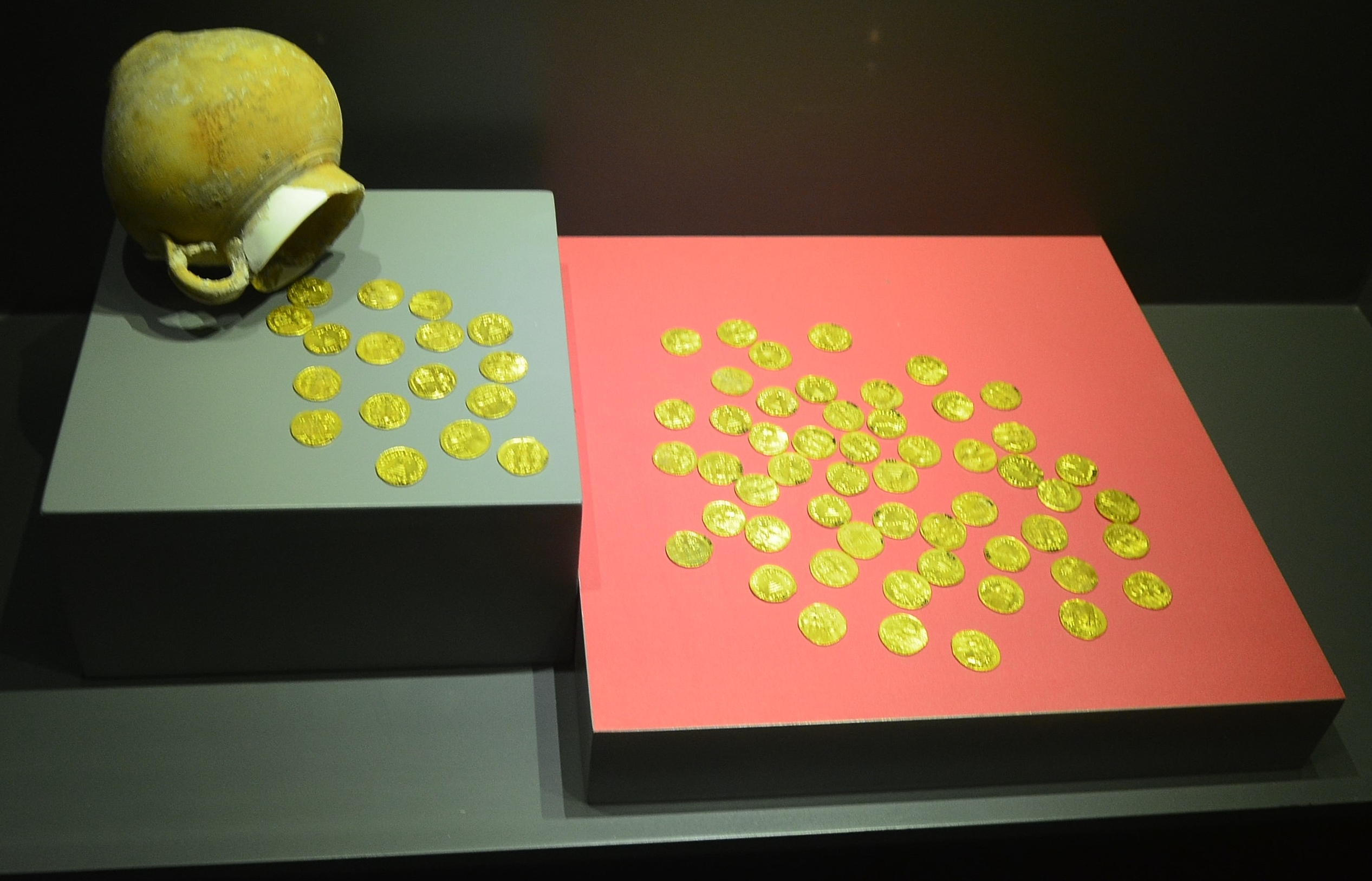 Ancient Roman coins at Aydın Archaeological Museum